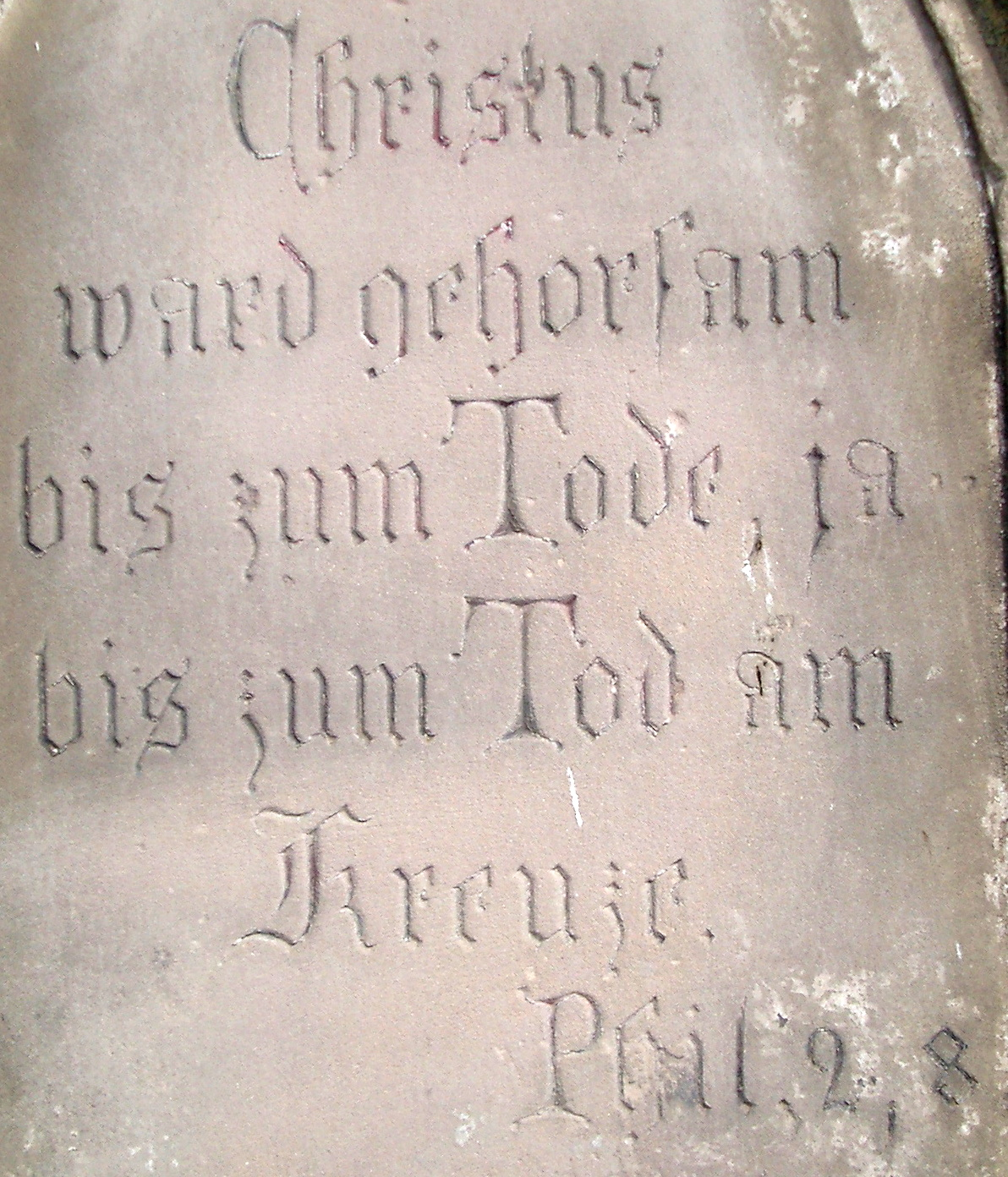 Inscription on stone cross in Walberberg, Rhineland, Germany. "Christus ward gehorsam bis zum Tode, ja bis zum Tod am Kreuze. Phil. 2,8." - "Christ was obedient till death, yes, till death at the cross. Psalm 2,8" Textura script with long s.